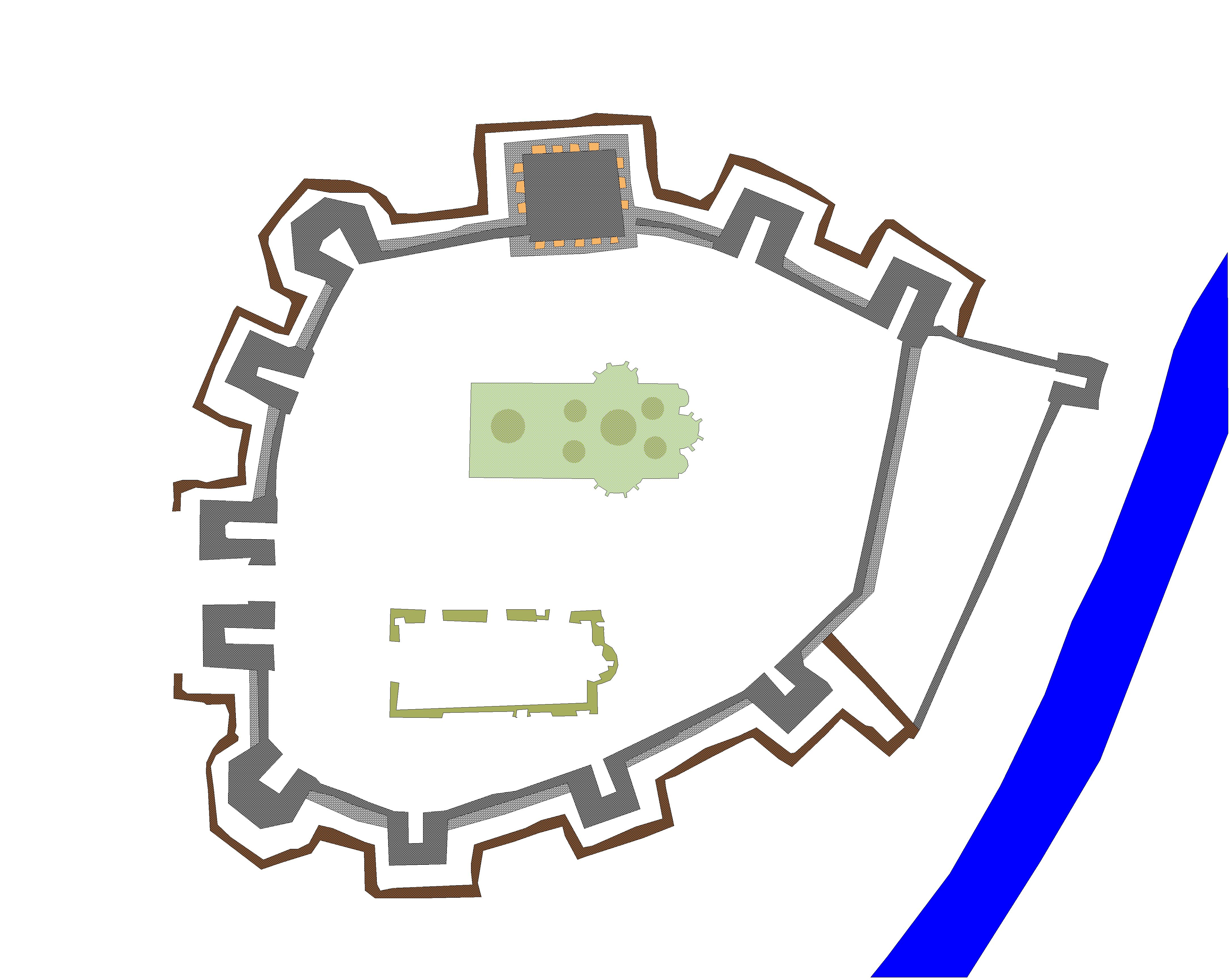 plan of the monastery Resava in Serbia, endownement of despot Stefan Lazarevic